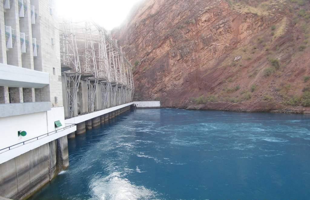 Nurek hydroelectric station,Tajikistan